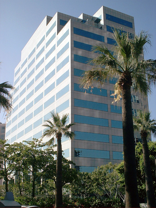 801 North Brand. One of many modern skyscrapers in Glendale, California, United States.